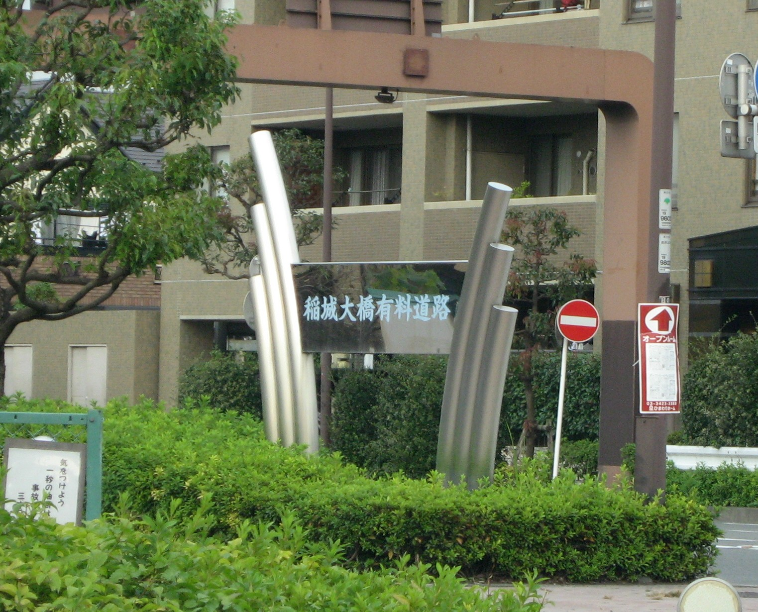 The entrance sign of the Inagi Bridge Toll Road.